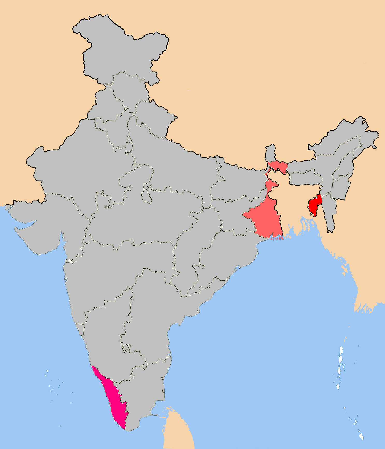 State/s with a chief minister from the Communist Party of India (Marxist) (CPI-M). State/s which had a chief minister from the CPI-M. State/s which had chief ministers from both the CPI-M and the Communist Party of India (CPI). States which which did not have/had a chief minister from the CPI-M or the CPI. Union territories without a state government.